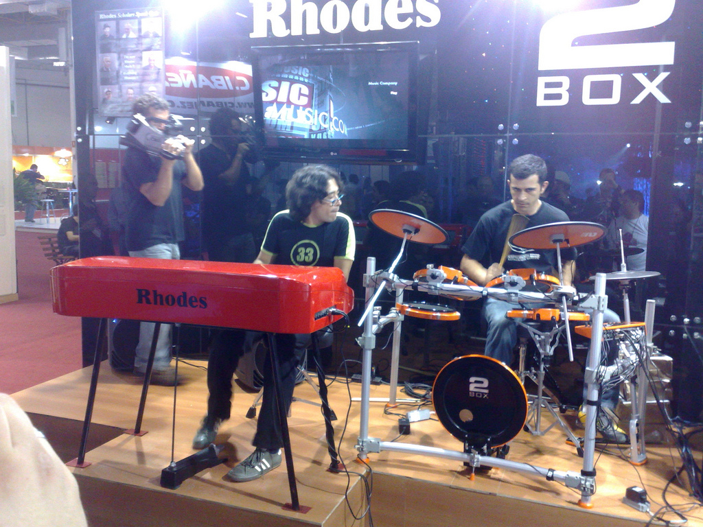 Expomusic 2010 Rhodes Mark 7 electric piano 2 BOX DrumIt Five electronic drum